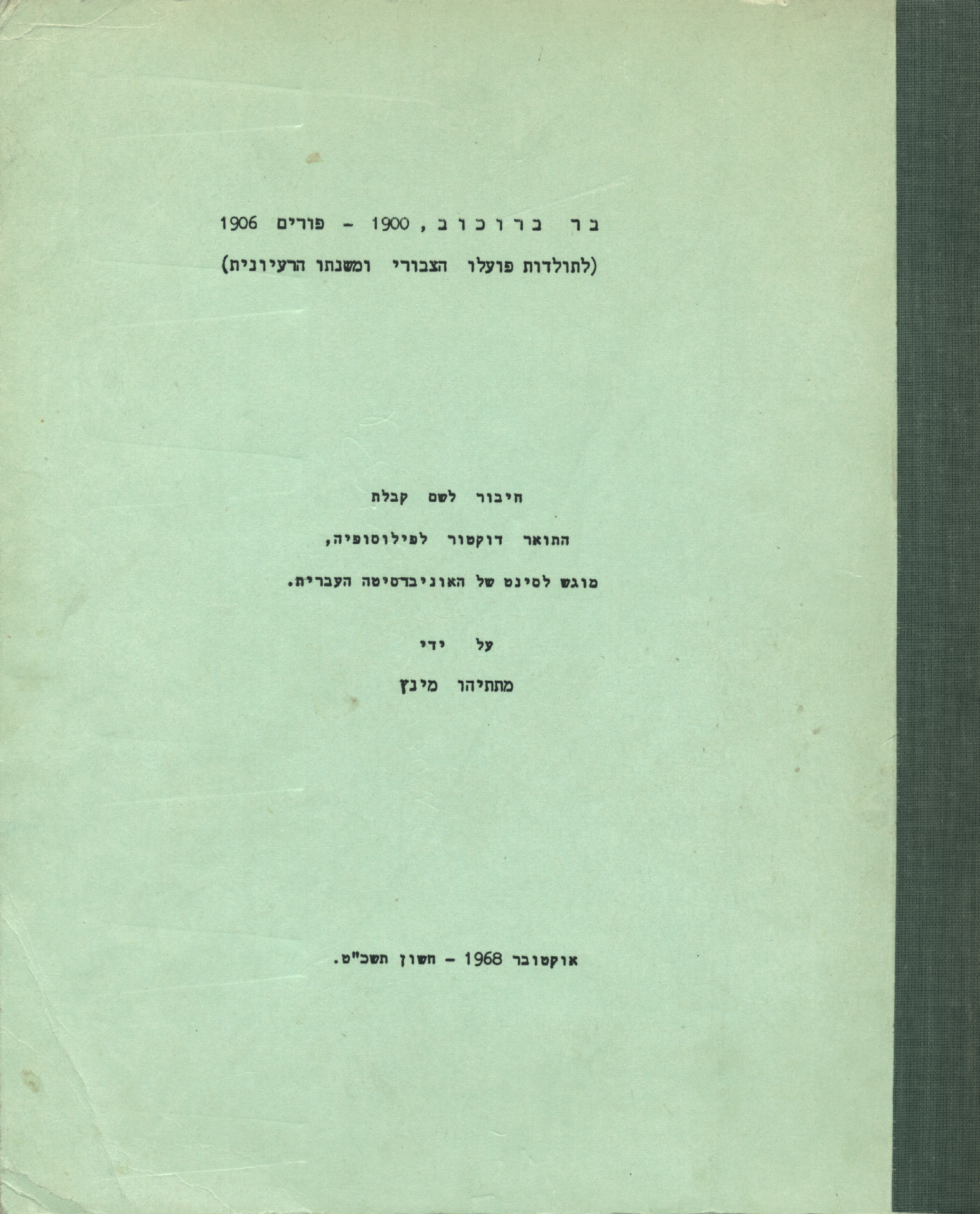 Ber Borochov Political Activities and Ideological Concepts, 1900 – Purim 1906, written by Matityahu Minc for his Doctorate of Philosophy, which was submitted to the Senate of the Hebrew University of Jerusalem in October 1968.